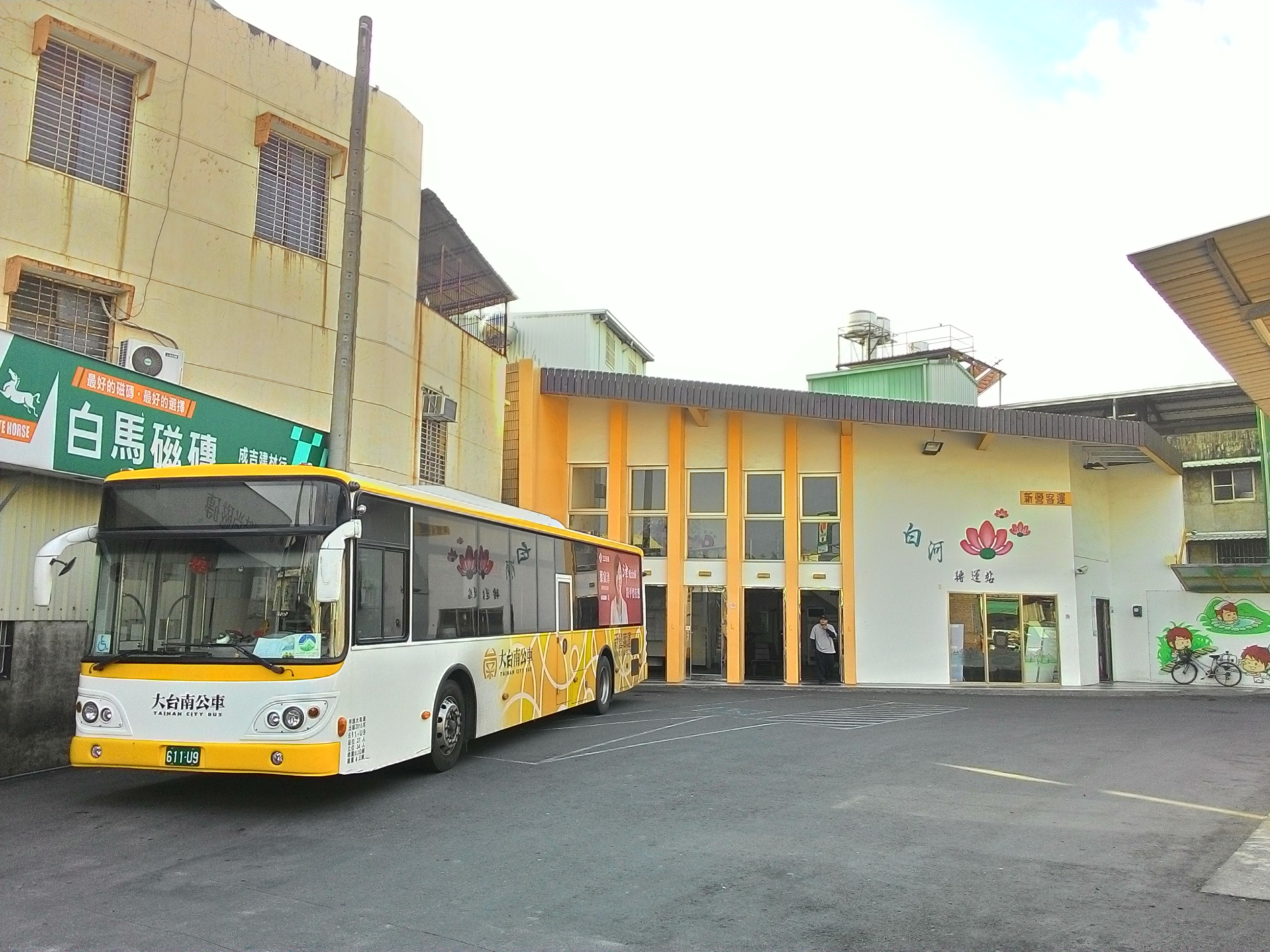 Singing Bus Baihe Station